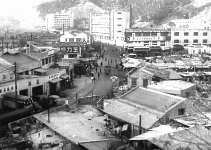 Looking towards the north from a place at Ngau Tau Kok in 50s (nowaday's Siu King Building in Ngau Tau Kok). Ngau Tau Kok Road at that time is seen.The cottage at the left-hand side was Ngau Tau Kok Village, while the Amoy Food Industry located at the right-hand side.